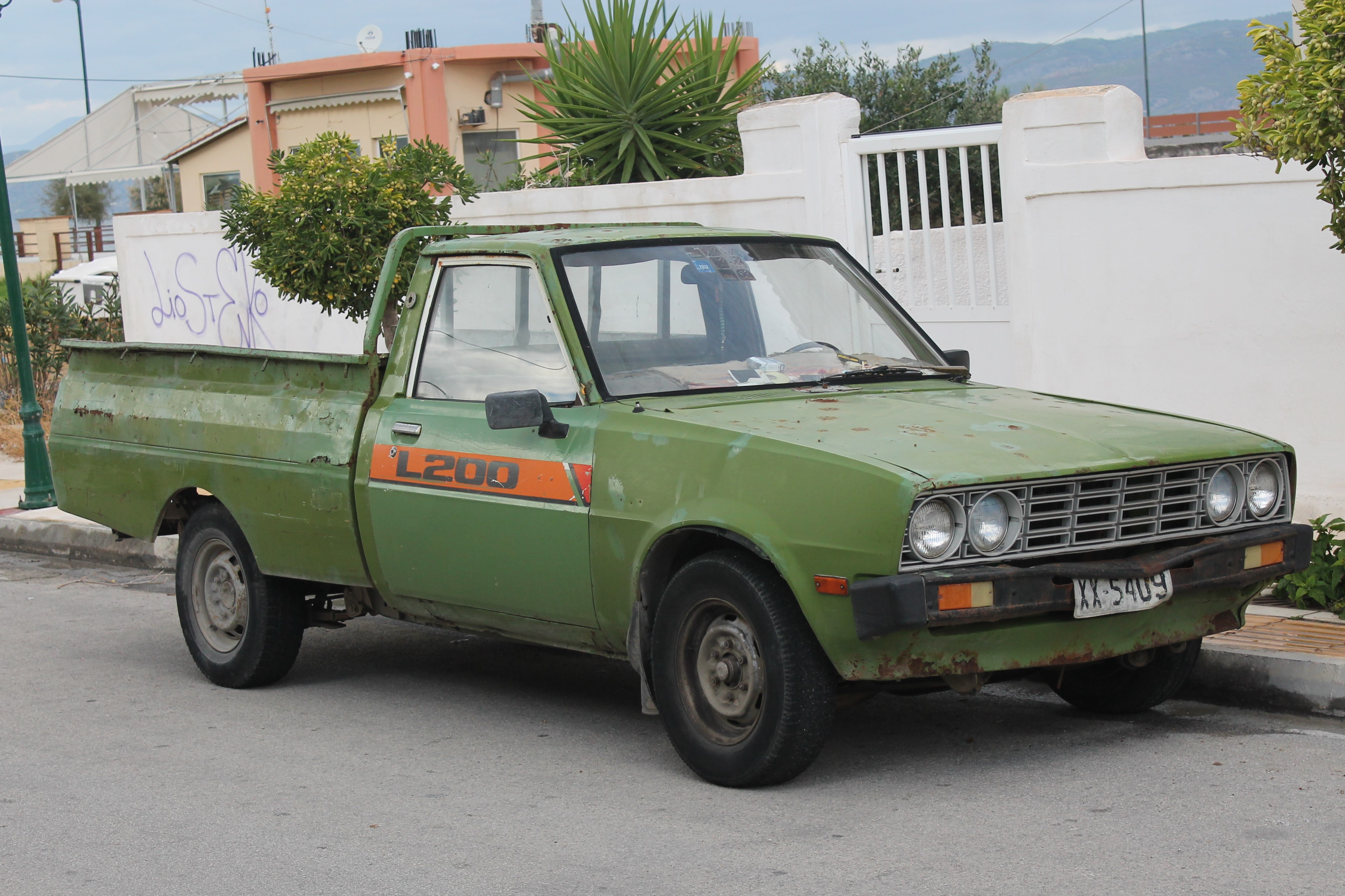 These old pick ups are rather popular in Greece. Everyone uses them still, over thirty years after they were new. This one is not in bad condition compared with some of the wrecks running around on the roads.